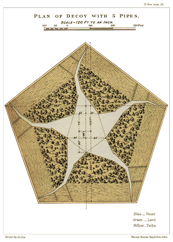 Diagram of a 5-pipr duck decoy